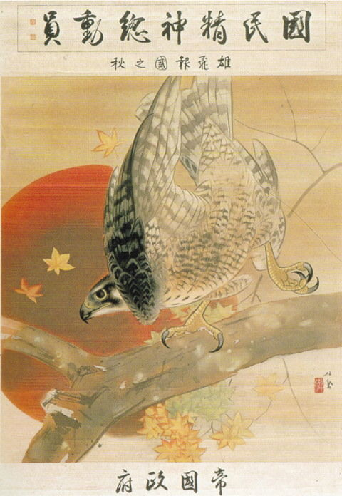 Leaping Patriotic Autumn (Japanese Imperial Government's poster)